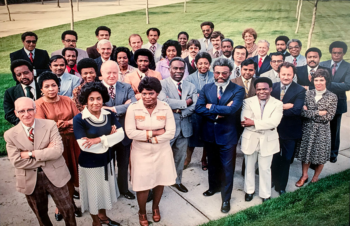 Robert Madison (Front middle) poses for a picture with his employees at Madison & Madison Architectural Firm (1972).